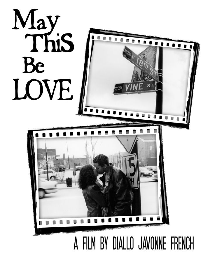 May This Be Love is a film by Diallo Javonne Smith that won 1st place Winner Urban Mediamakers Film Festival and was aired on the BET in 2009.